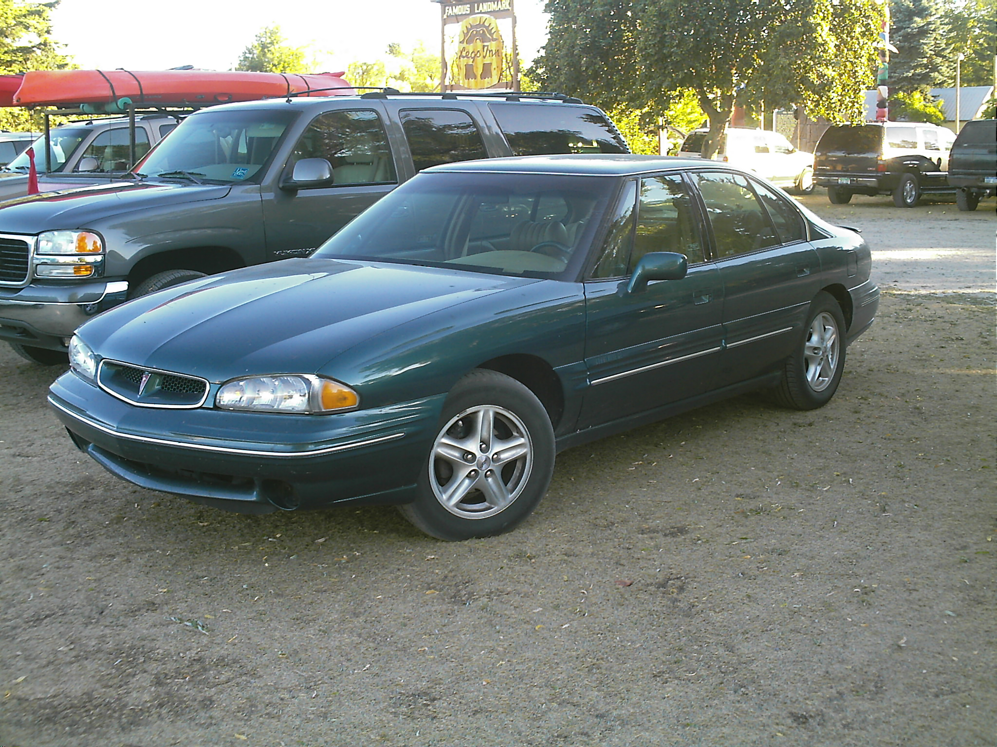 1998 Pontiac Bonneville, photographed in Cross Village, MI.